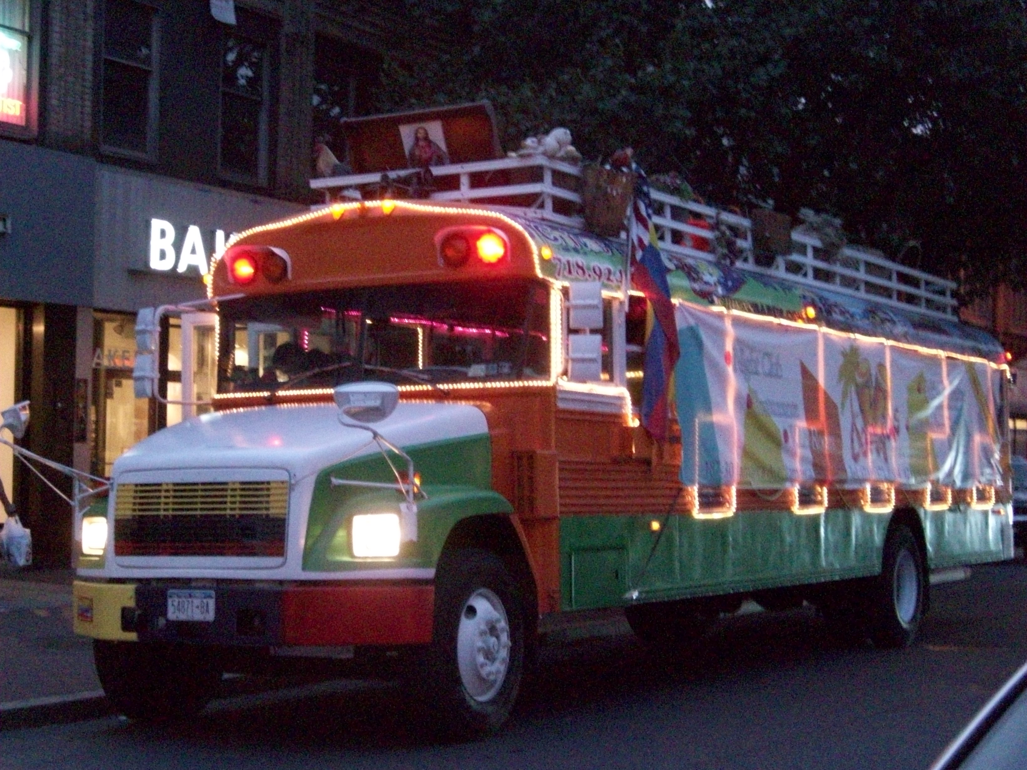 Chiva Bus during colombian independence celebration in Queens, New York.